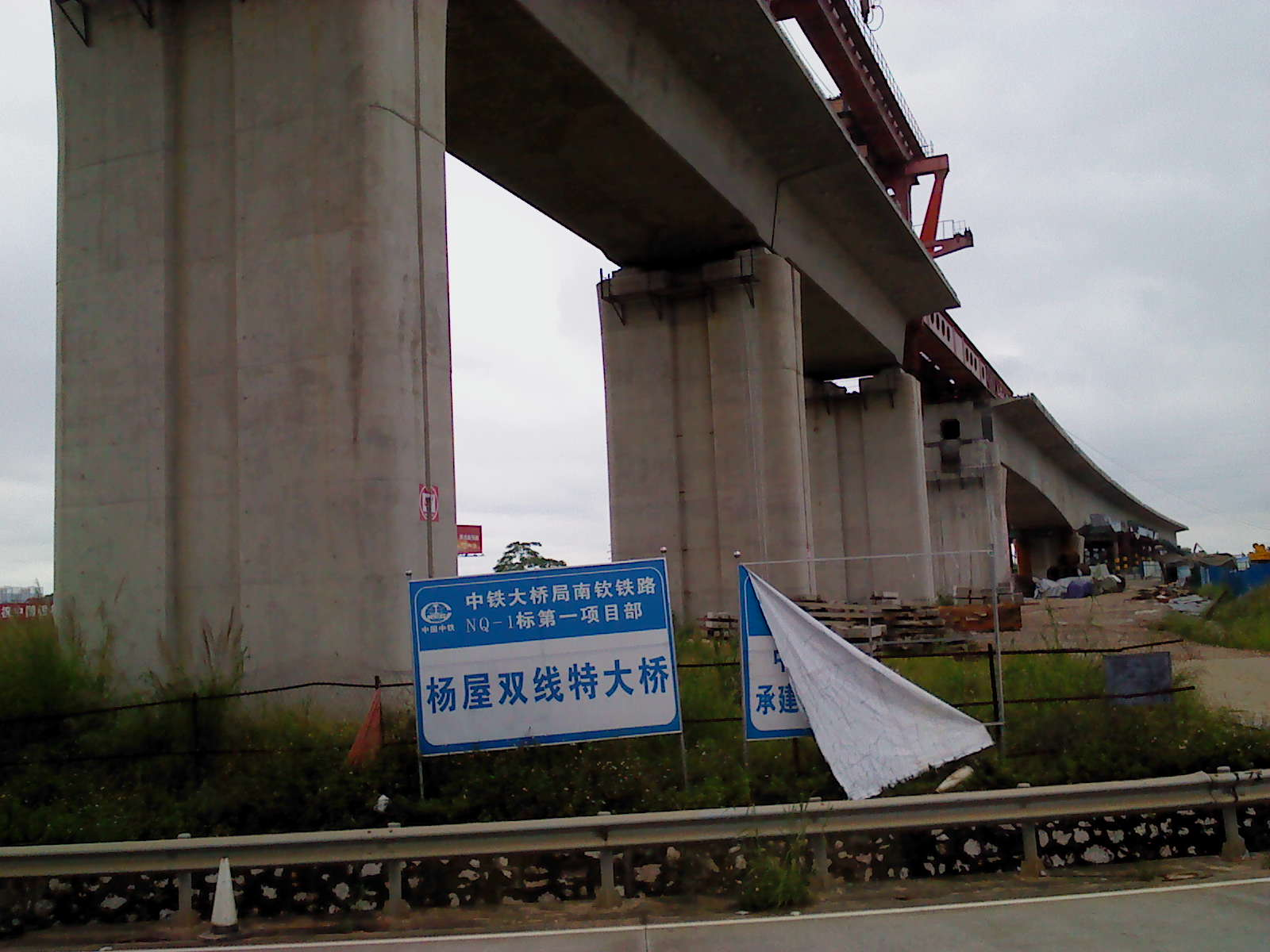 Nan Qin Railway viaduct under construction